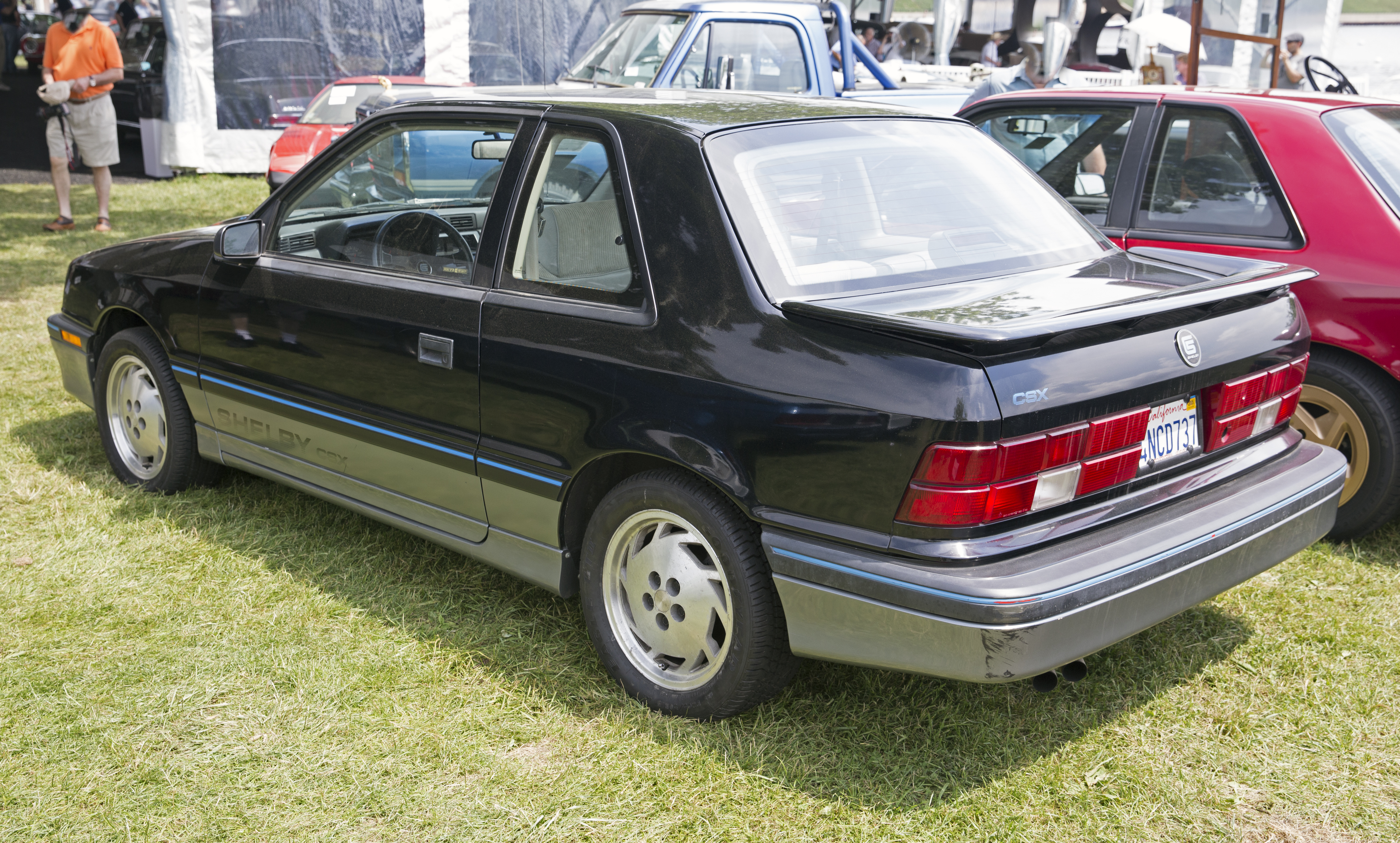 A 1987 Dodge CSX, number 1 of 750 built. From Carroll's personal collection and sold for $16,800 at the 2018 Greenwich Concours d'Elegance. From the Bonhams blurb: "The [CSX] recipe remained similar enough to their previous efforts. A 2.2-liter inline turbo 4 cylinder provided 175hp to the front wheels through a 5-speed manual Getrag gearbox. However, new additions included a larger turbo, an AiResearch T3, supplying peak boost of 12psi through an air-to-air intercooler. 0-60 could be achieved in an impressive 7.1 seconds as a result. The suspension also saw a number of improvements with the inclusion of gas charged Monroe Formula GP struts with high rate coil-over springs which lowered the vehicle three quarters of an inch. Larger anti roll bars were also fitted on both the front and year. Kelsey-Hayes vented rotors up front and solid discs in the rear aided in the effort to reduce the high speeds the vehicle was now capable of. Shared with the Charger GLH-S, Centurion II brushed aluminum wheels were wrapped in Goodyear Eagle tires. Only 750 of these cars were completed for the 1987 model year and all were finished in identical specification. Two-tone Black and Silver paint adorned the refreshed bodywork that included unique front grill, air dam, side skirts, and spoiler. Inside, the vehicle came with some fine details in the way of a Shelby turbo gauge and simulated leather steering wheel. The CSX offered here is the first example built as noted on its numbered dash plaque and has been under the care of Carroll Shelby since it was built. The car is offered with a Shelby vehicle authenticity certificate certifying that the car was owned by Carroll Shelby."